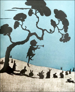 An image from a book published in 1923 in the United States.